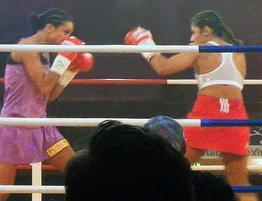 Susianna Kentikian (right) and Nadia Hokmi during their world championship fight in Hamburg, December 7, 2007. Cropped from Image:Kentikian-Hokmi.jpg